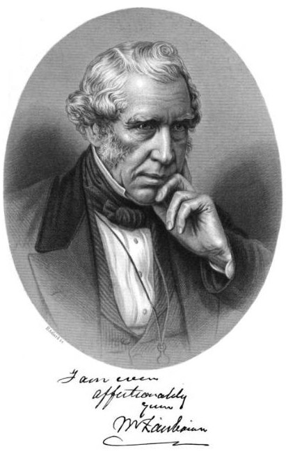 Picture of Sir William Fairbairn, the Scottish engineer